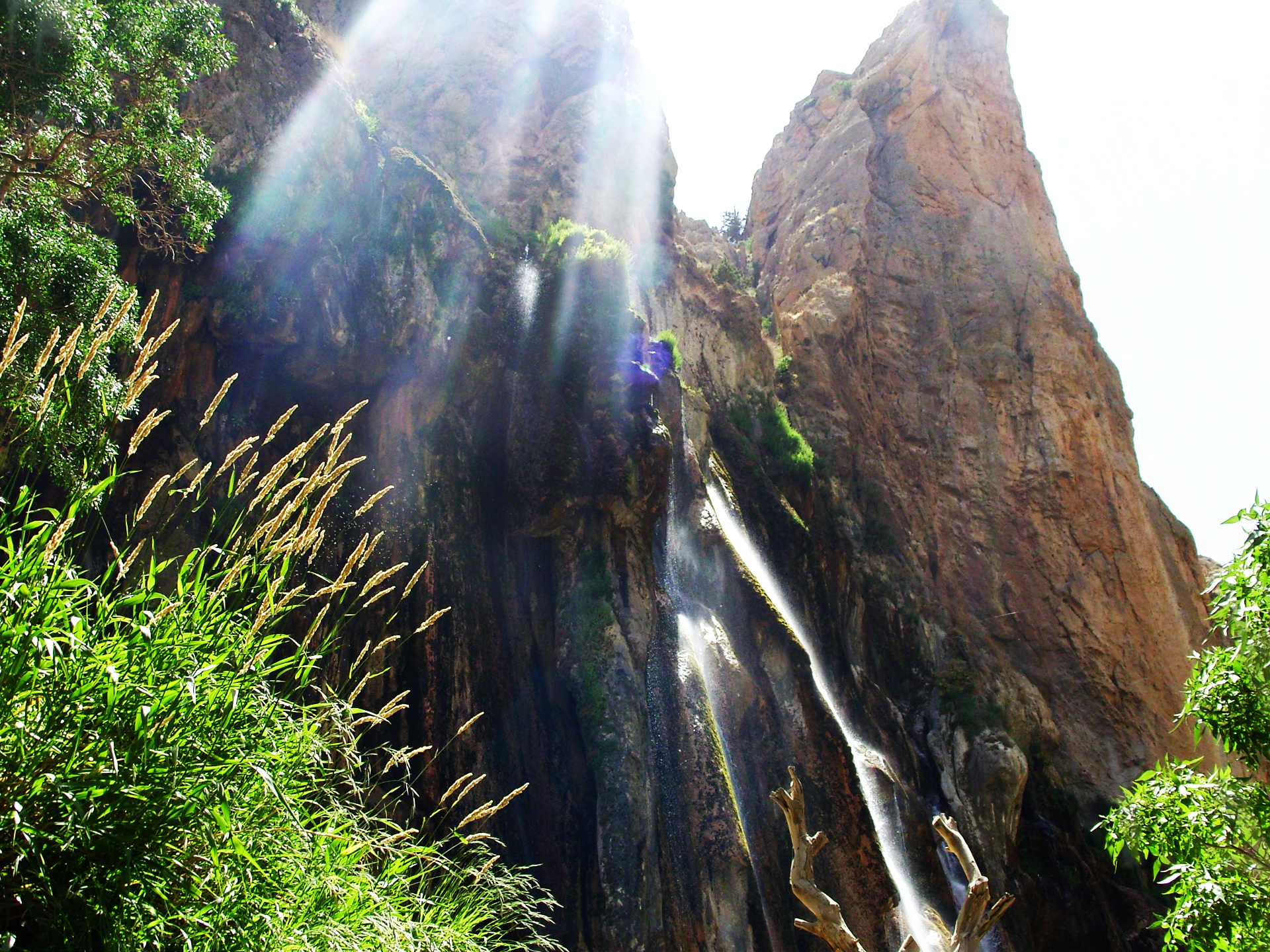 آبشار مارگون سپیدان فارس